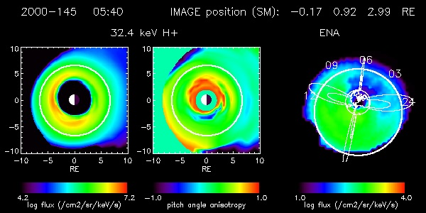 Mei-Ching Fok - This is a typical output from the ring current - neutral atom simulation. The left and middle panels show the equatorial ion distribution generated from the Fok's ring current model. The left panel plots the differential flux averaged over pitch angles. The white circle depicts the 6.6 RE radial distance. The middle panel shows the pitch angle anisotropy, with zero value representing isotropic distribution, greater than zero perpendicular and less than zero field aligned. The right panel is the corresponding neutral atom image from the perspective of the IMAGE satellite. Dipole field lines of L = 3 and 6.6 at 4 MLTs are overlaid as a spatial reference. Code used dated as 2001